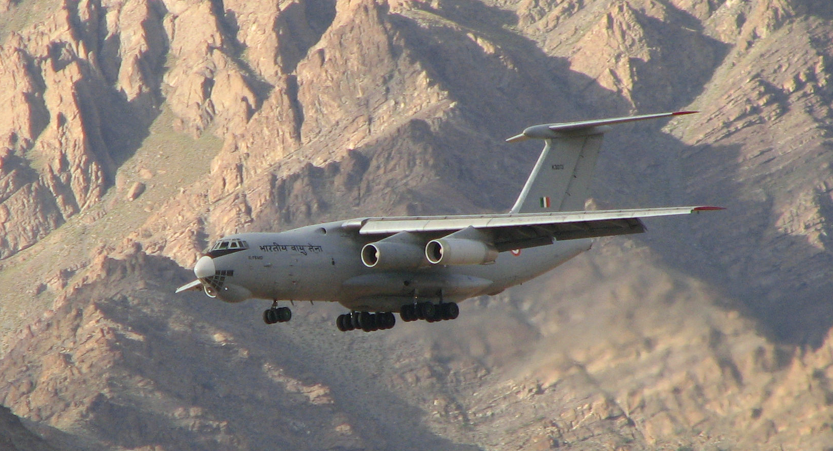 Ilyushin Il-76, or IL76 as its called frequently, the lifeline of Leh, landing @ one of the world's highest airports. The massive plane is dwarfed by the towering Stok mountain range in the background.